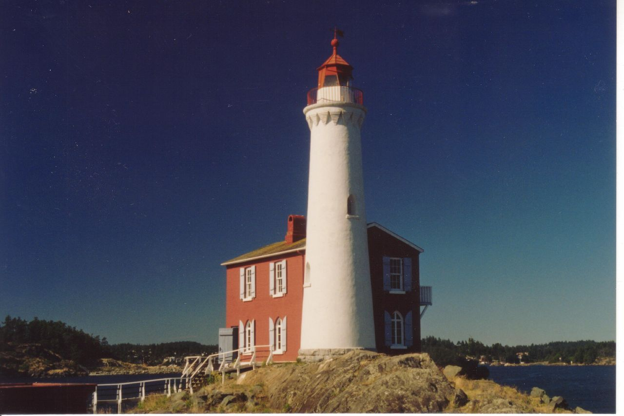 A National Historic site, this is Canada's first lighthouse on the west coast, built in 1860 and had a keeper up and until 1929 when it was automated.